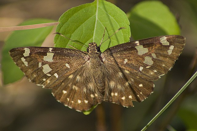 Malabar Spotted Flat from Coimbatore-Palakkad border, Tamil Nadu, India.